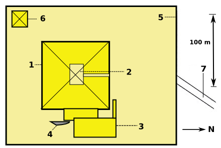 The Plan of the Tomb Complex of Djedefre in Abu Rawasz: 1)Pyramid 2)Burial Chamber 3)Mortuary Upper Temple 4)Boat Pit 5)Enclosure Wall 6)Satellite Pyramid 7)Causeway (ramp)